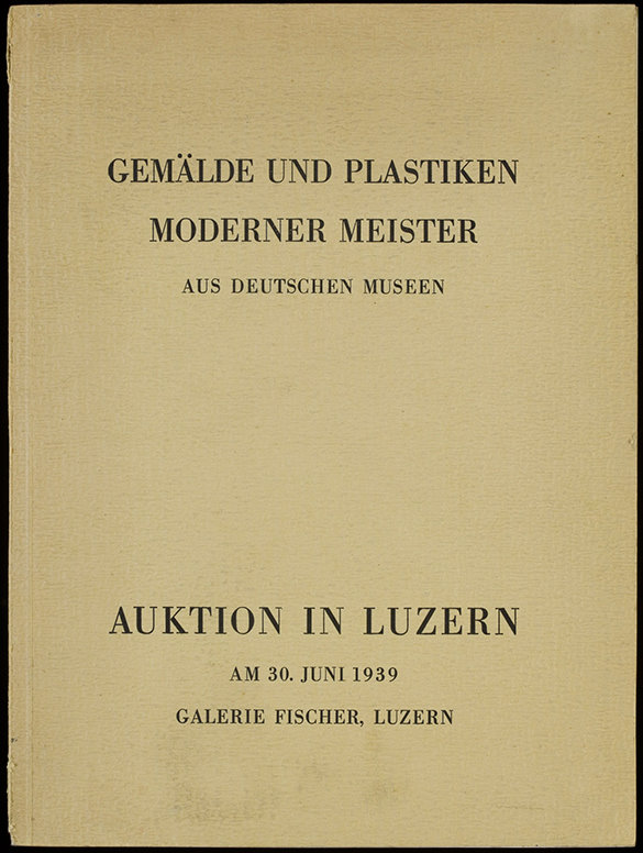 Galerie Fischer 1939 auction catalogue for the "degenerate art" sale.